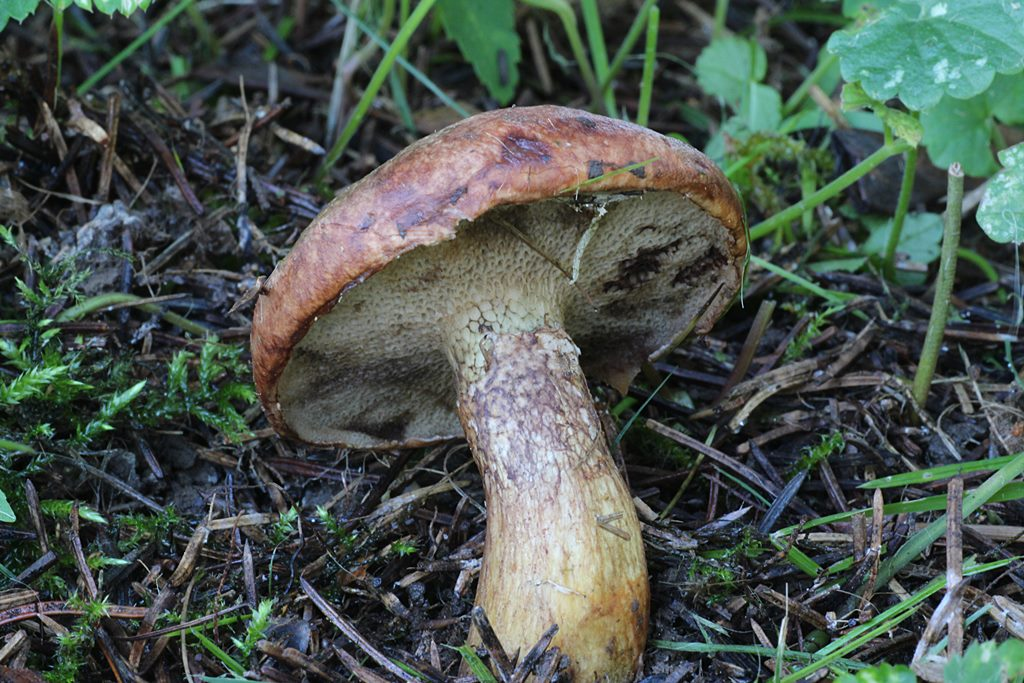 Suillus lakei - older fruiting body of the fungus